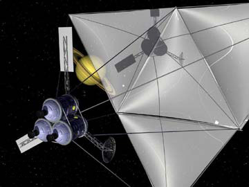 Illustration of a spacecraft design propelled by the solar wind, as an alternative to chemical propulsion.